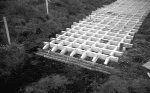 Wood matrix cellular confinement system after installation in the Wrangell–St. Elias National Park and Preserve in Alaska.